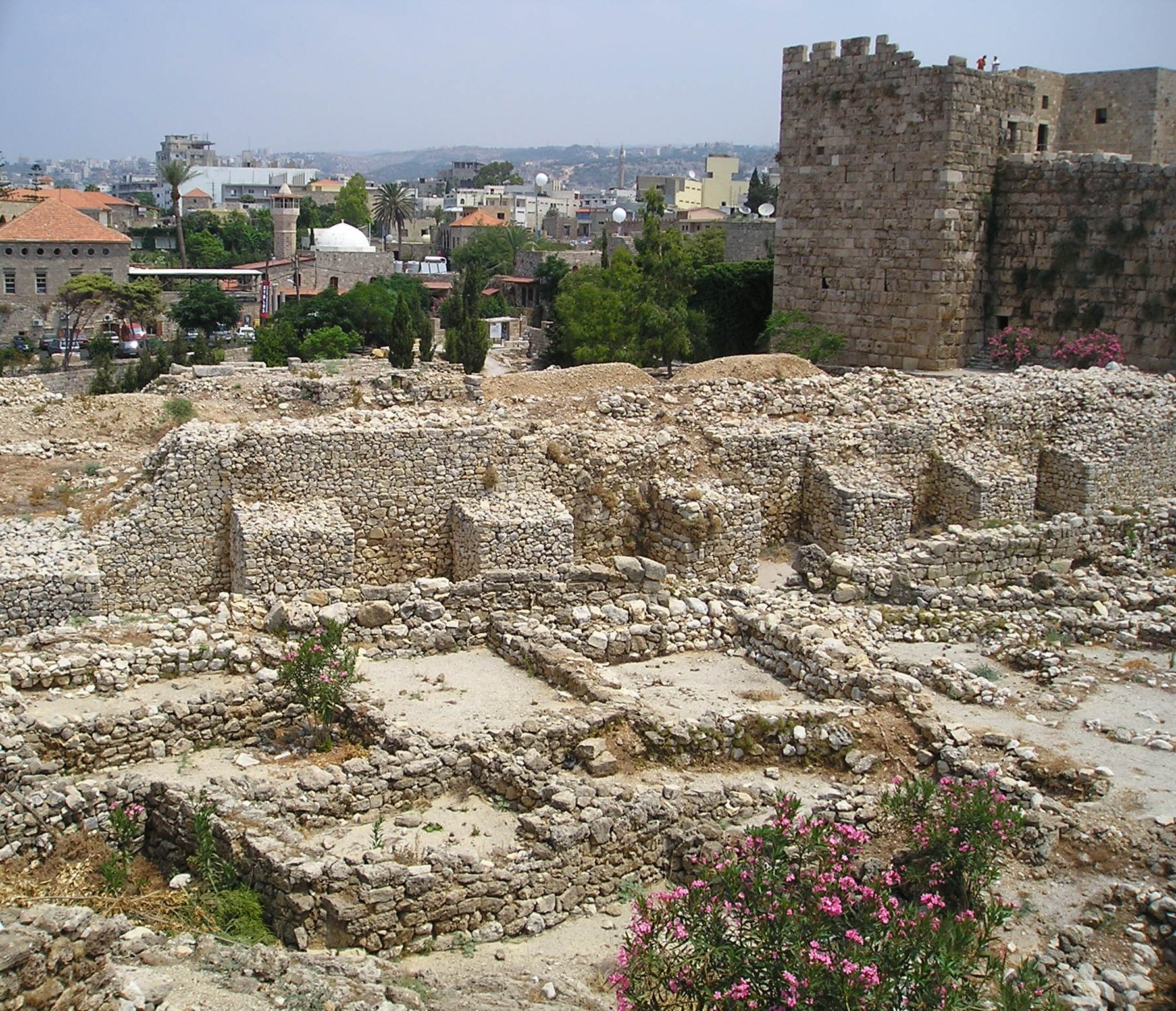 Byblos, Lebanon - ancient city ramparts